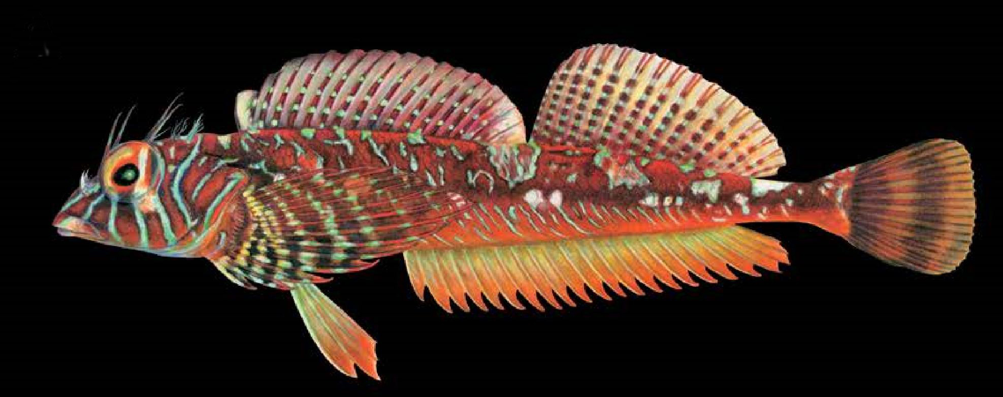 Longfin sculpin Jordania zonope image by Joseph R. Tomelleri